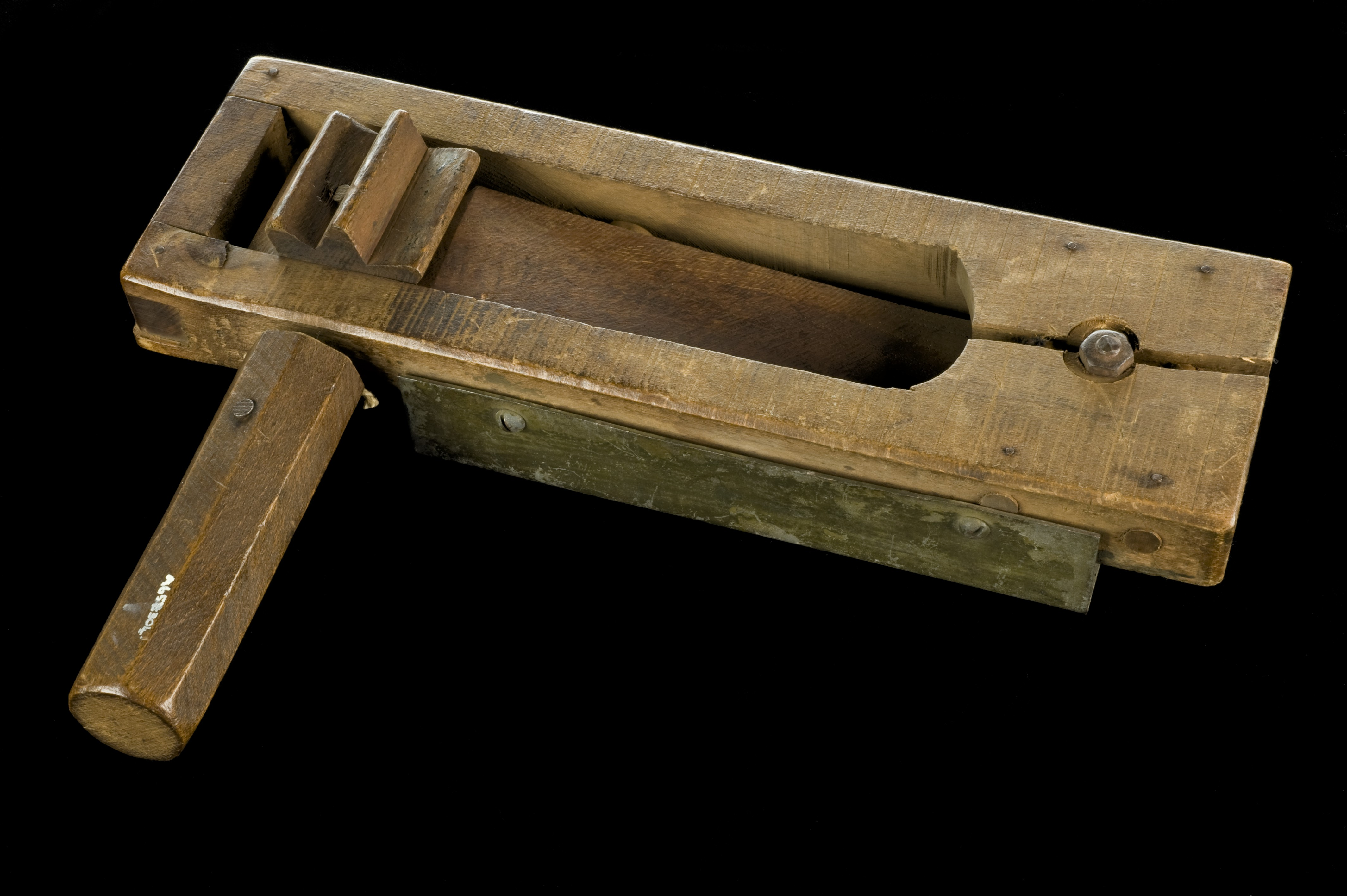 To give troops time to put on any protective clothing during gas attacks, this rattle would have been used to give a loud warning – although even this rattle’s noise may not have been heard over the noise of battle. Gas warfare was first used by the German Army in 1915 – although quite quickly it became a weapon used by all sides. The gases varied in their effects, but ‘Mustard gas’, which caused blindness and burns to the skin, was particularly feared. maker: M Bros Place made: England, United Kingdom Wellcome Images Keywords: rattle; Mustard Gas